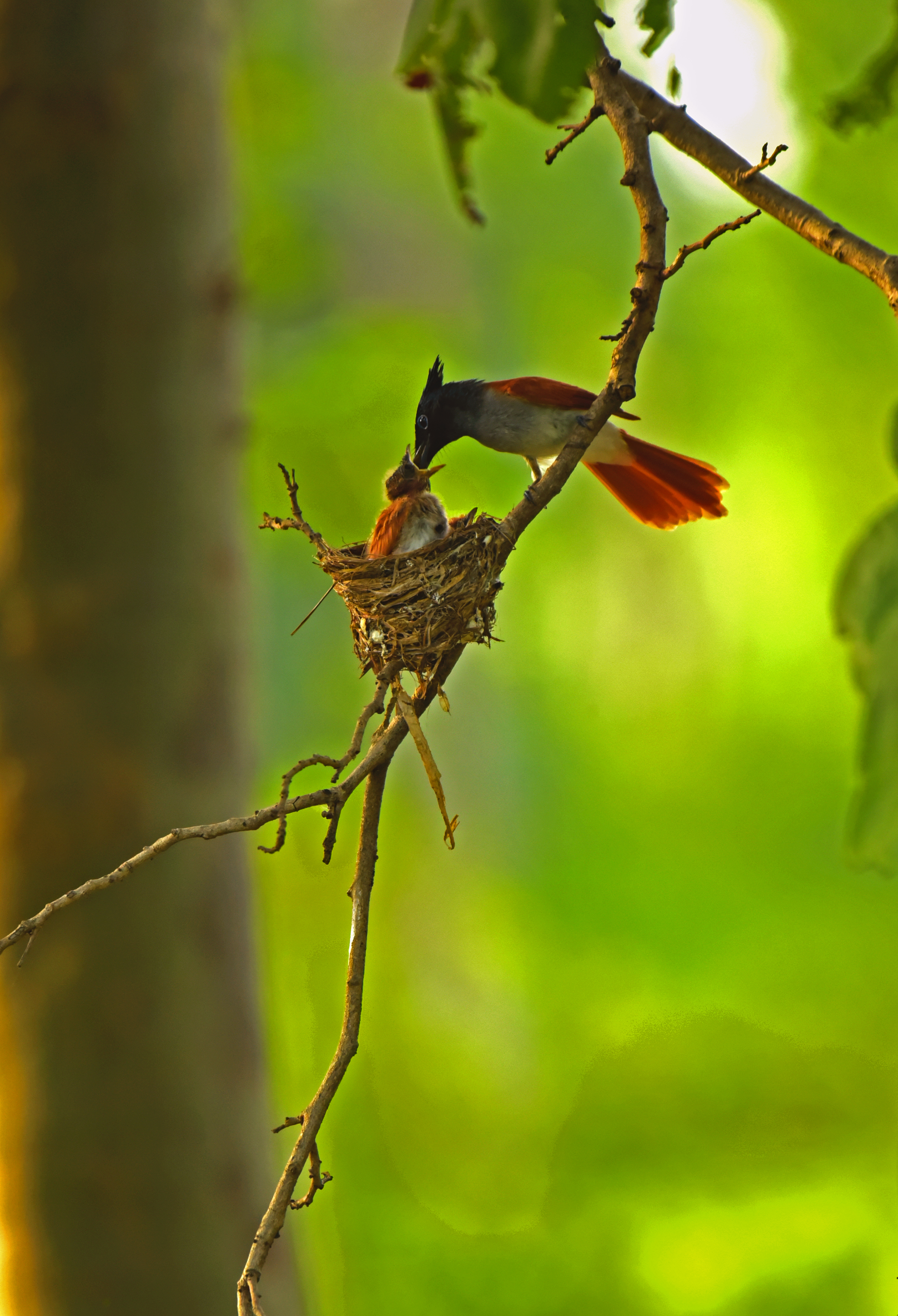 Nesting of Asian Paradise flycatcher